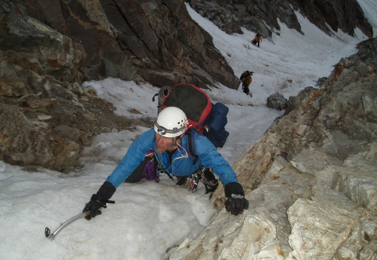 Ian Welsted, a canadian climber, topping out the initial gully of Kunyang Chhish East.